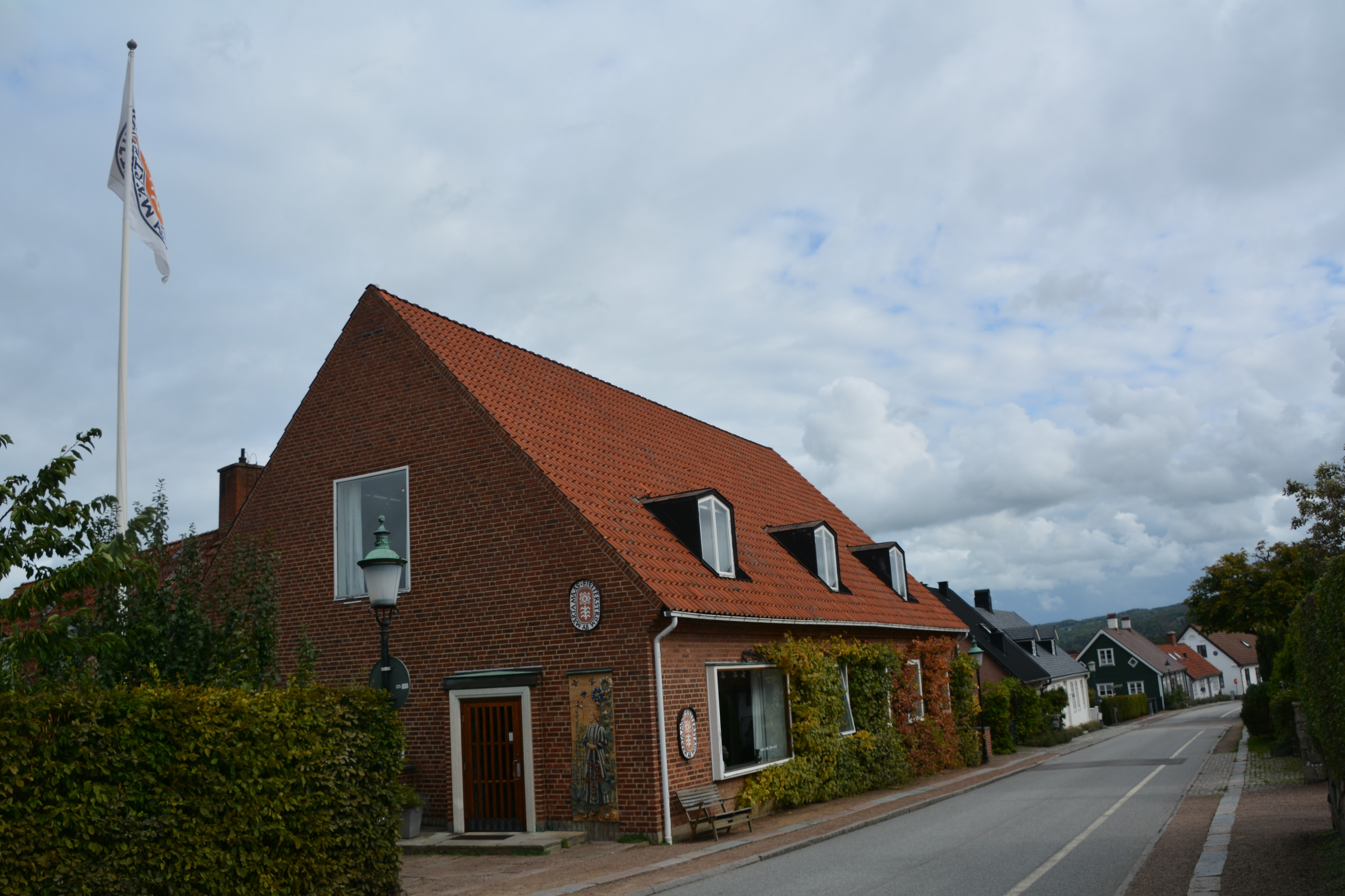 Märta Måås-Fjetterström AB:s verkstad i Båstad